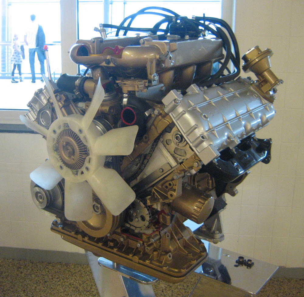 Volvo version of the PRV engine. Photo from the volvo museum.